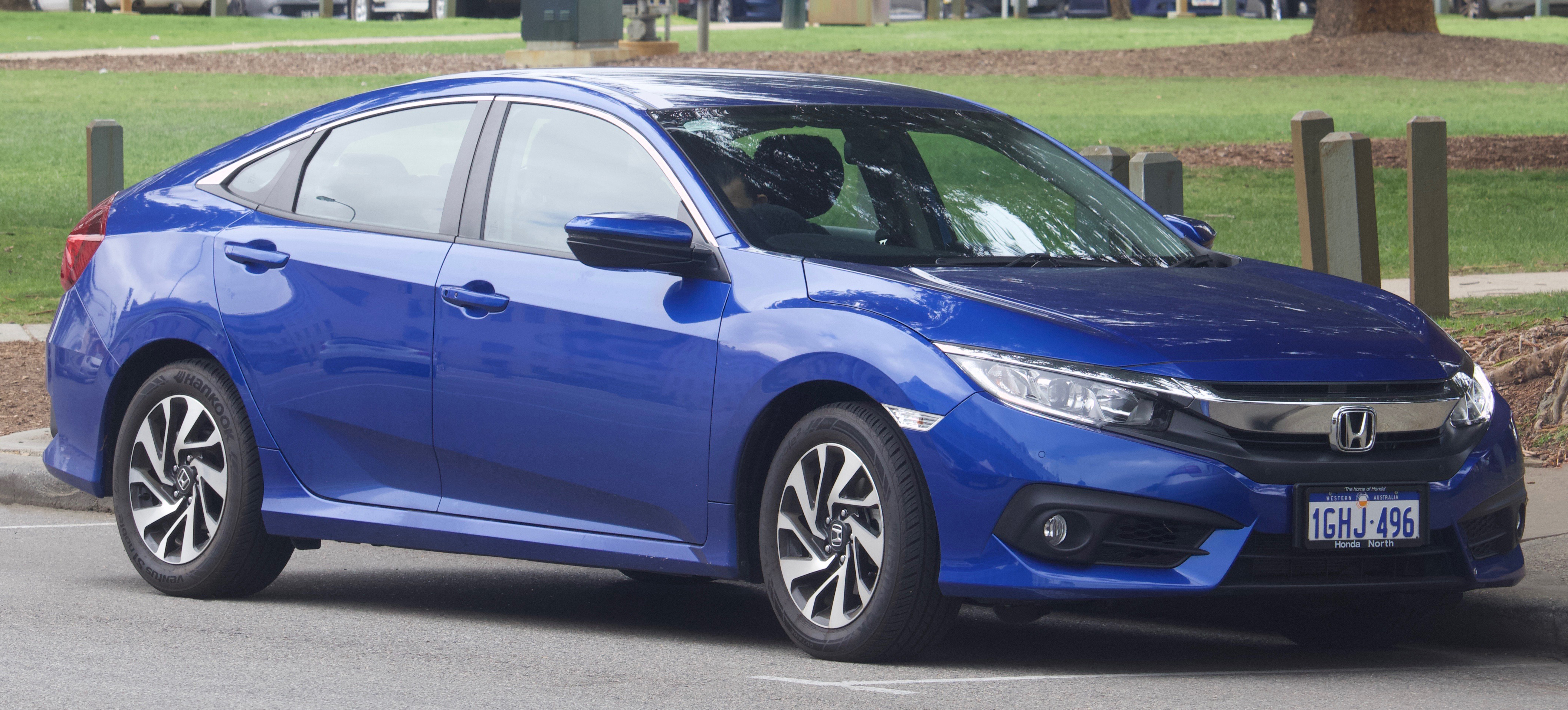 2017 Honda Civic VTi-S sedan. Photographed in Fremantle, Western Australia, Australia.